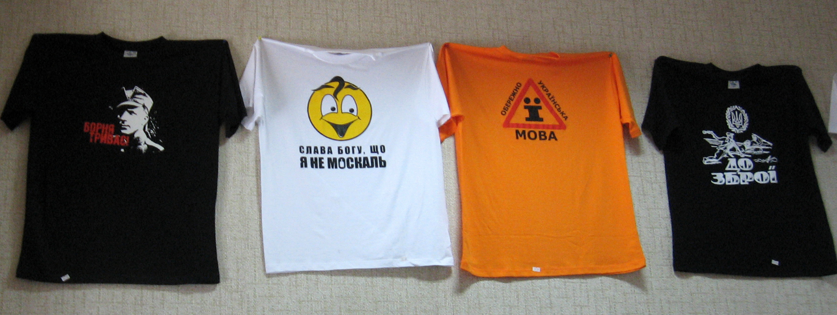 T-shirts with Ukrainian nationalist`s slogans